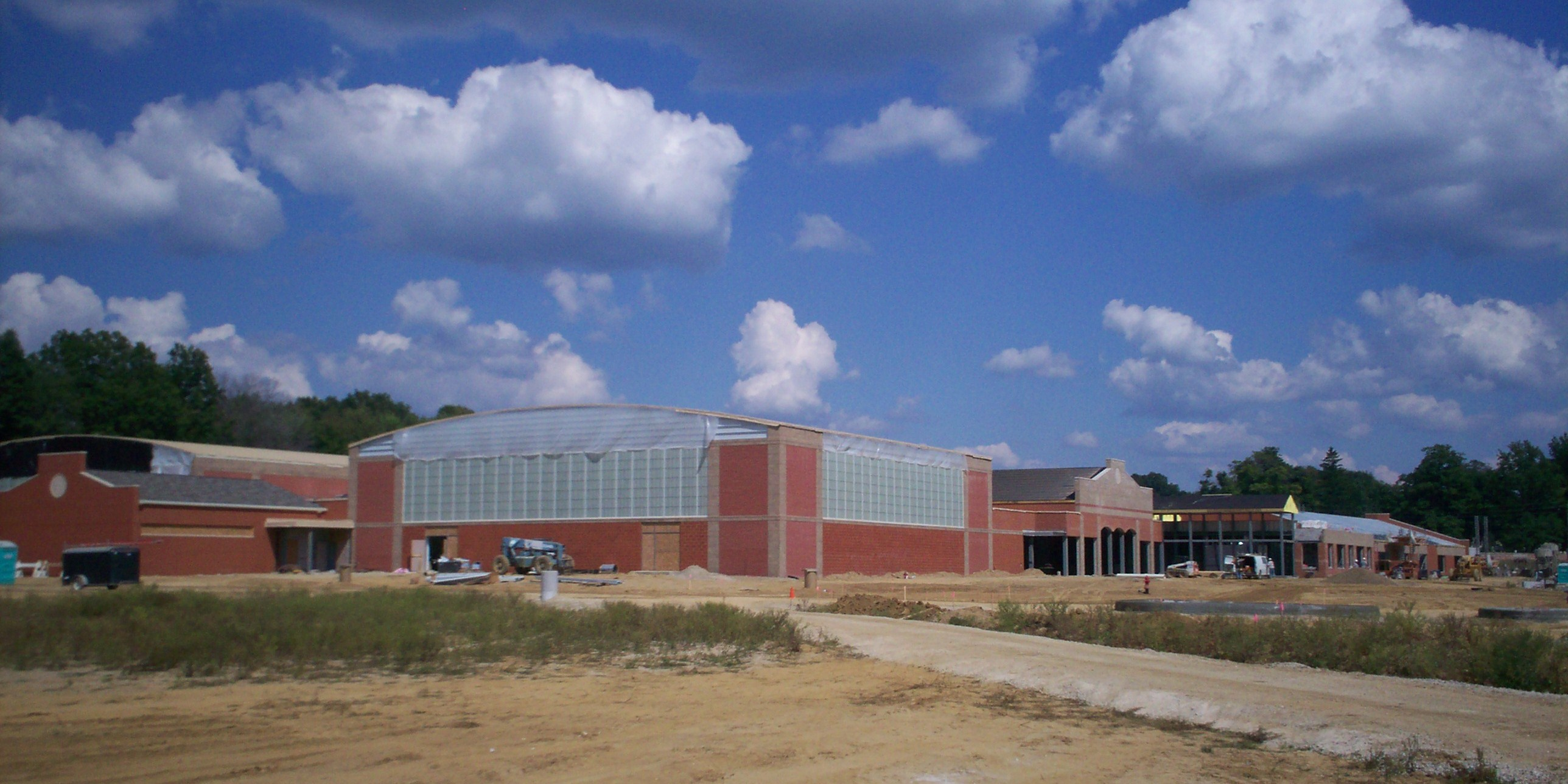 Construction site of the new Ravenna High School in Ravenna, Ohio looking northeast. The building is being built adjacent to the school's athletic fields, which were built in the late 1990's. Construction began in 2007 and is anticipated to be completed in 2010.